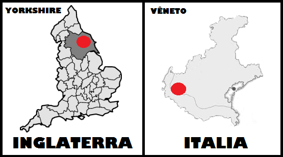 Mapa